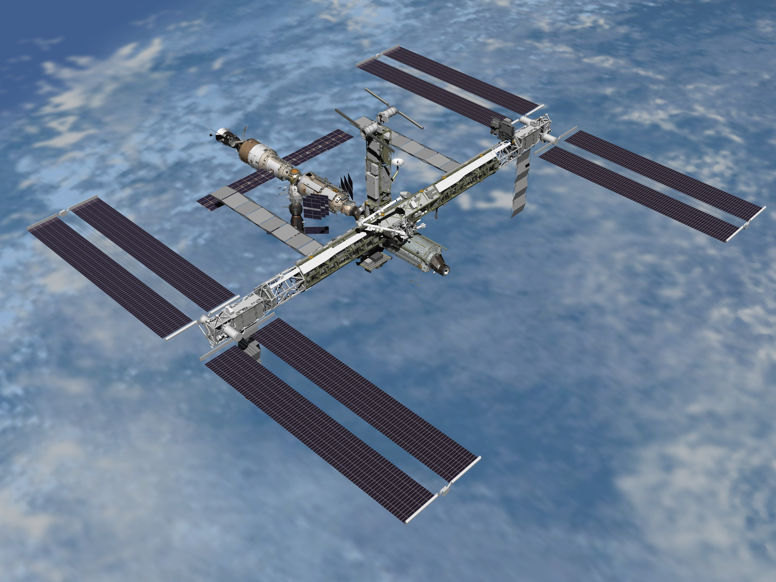 This is an artist's rendering of the ISS as of 9-28-2007 taken from the NASA website prior to the STS-120 "Harmony" delivery mission. This computer generated image shows the International Space Station in its current configuration as of Sept. 29, 2007 after its two oldest solar arrays were furled outside the Russian Zarya control module. The folded arrays can be seen tucked close to Zarya, the module near the left center in this view.